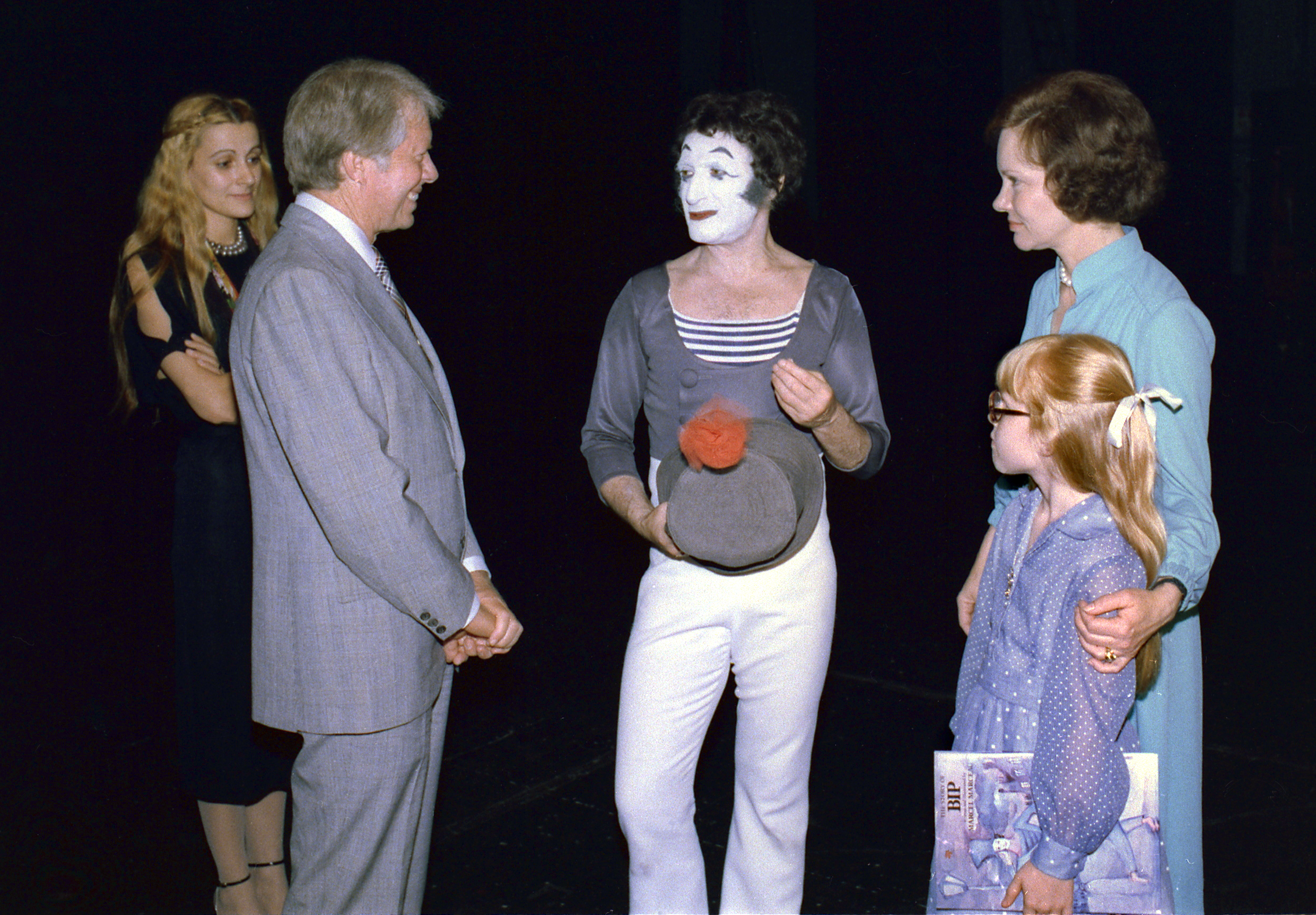 US President Jimmy Carter, Rosalynn Carter, and Amy Carter with mime Marcel Marceau, 06/16/1977 ARC Identifier: 175193 NLC-WHSP-C-01769-34